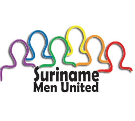 Suriname Men United Logo, consisting of silhouettes of 6 men, united by the colors of the rainbow.